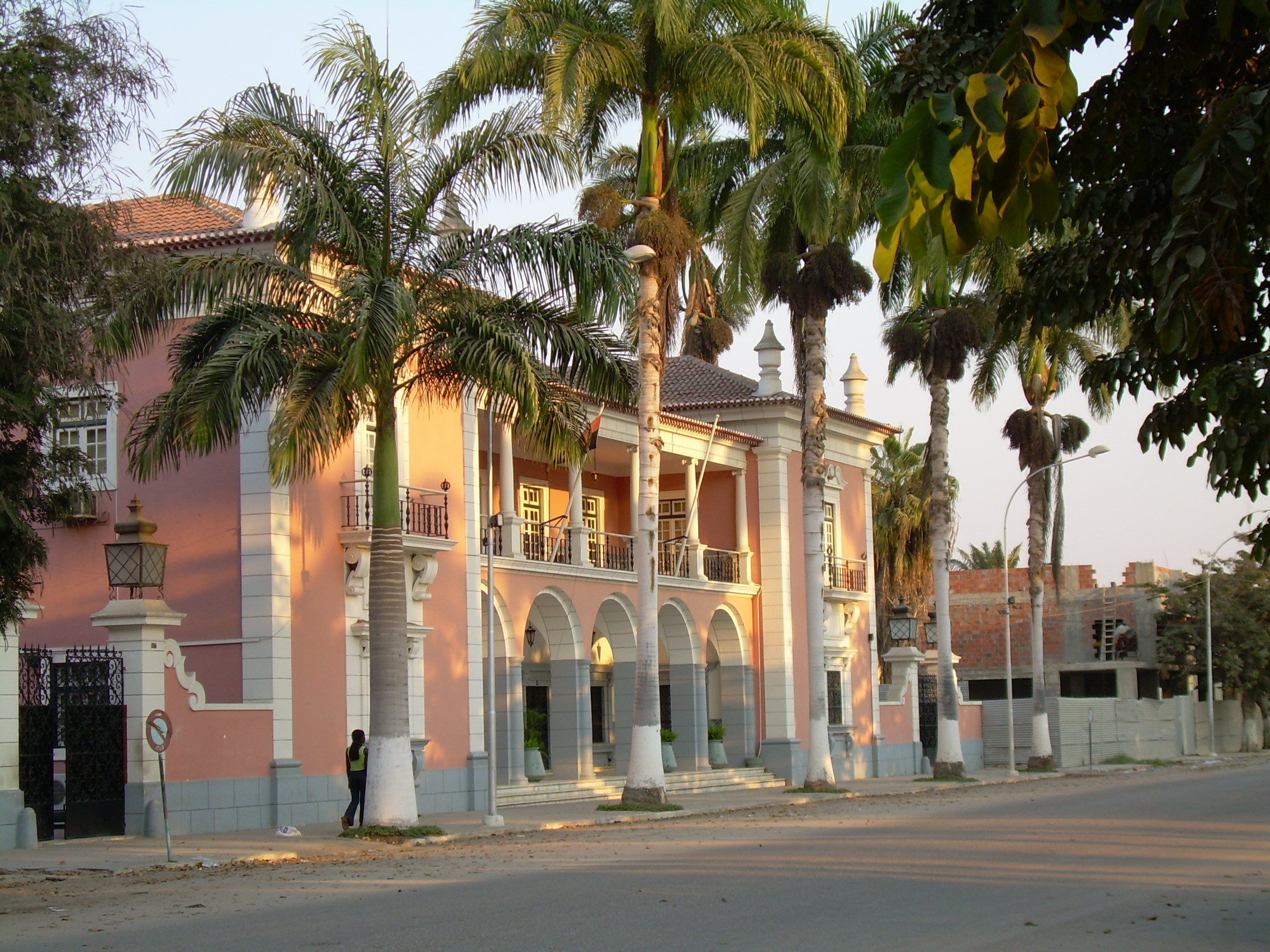 Angola Central Bank, Benguela, Angola